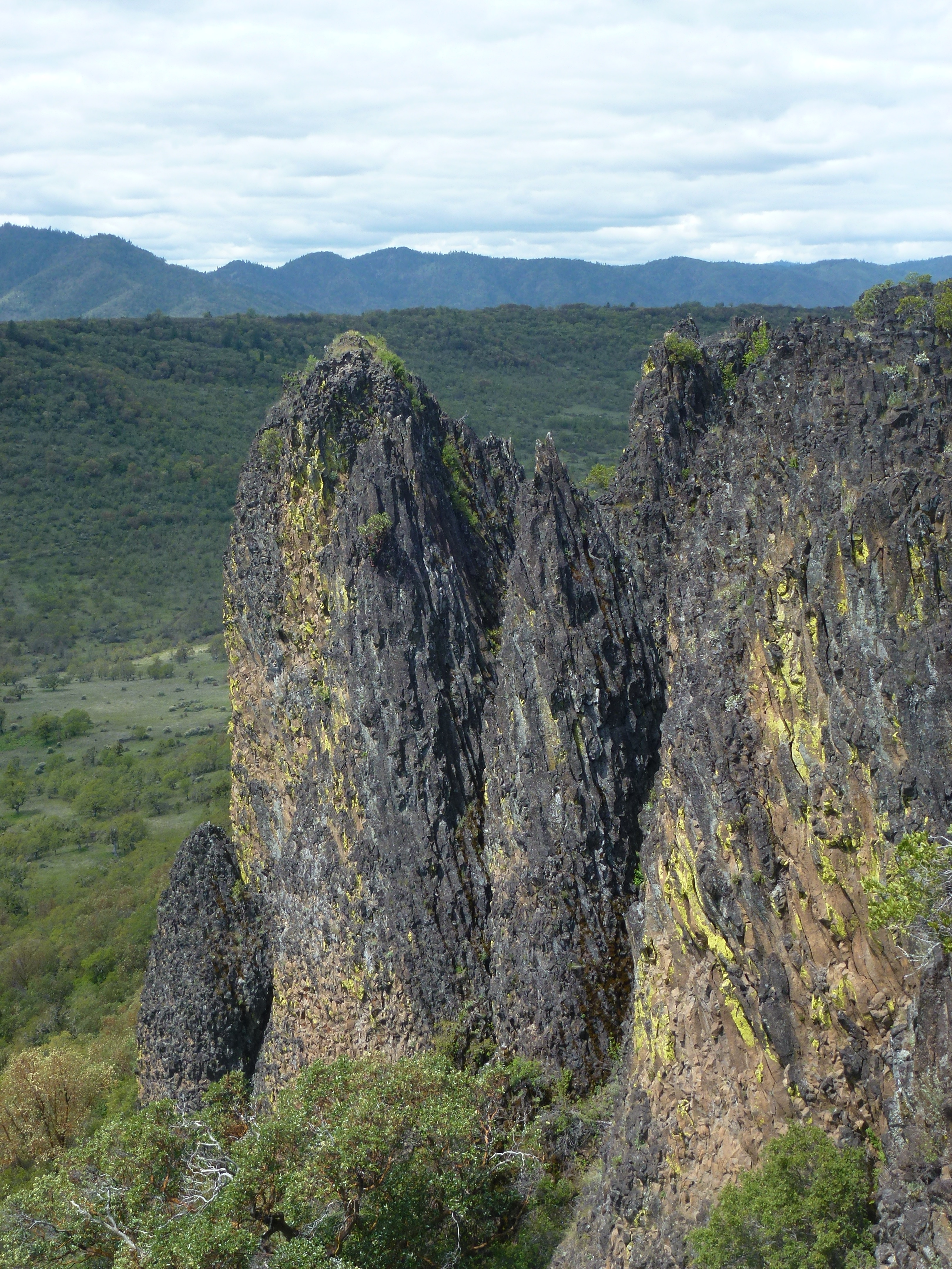 An andesite outcropping on Lower Table Rock.